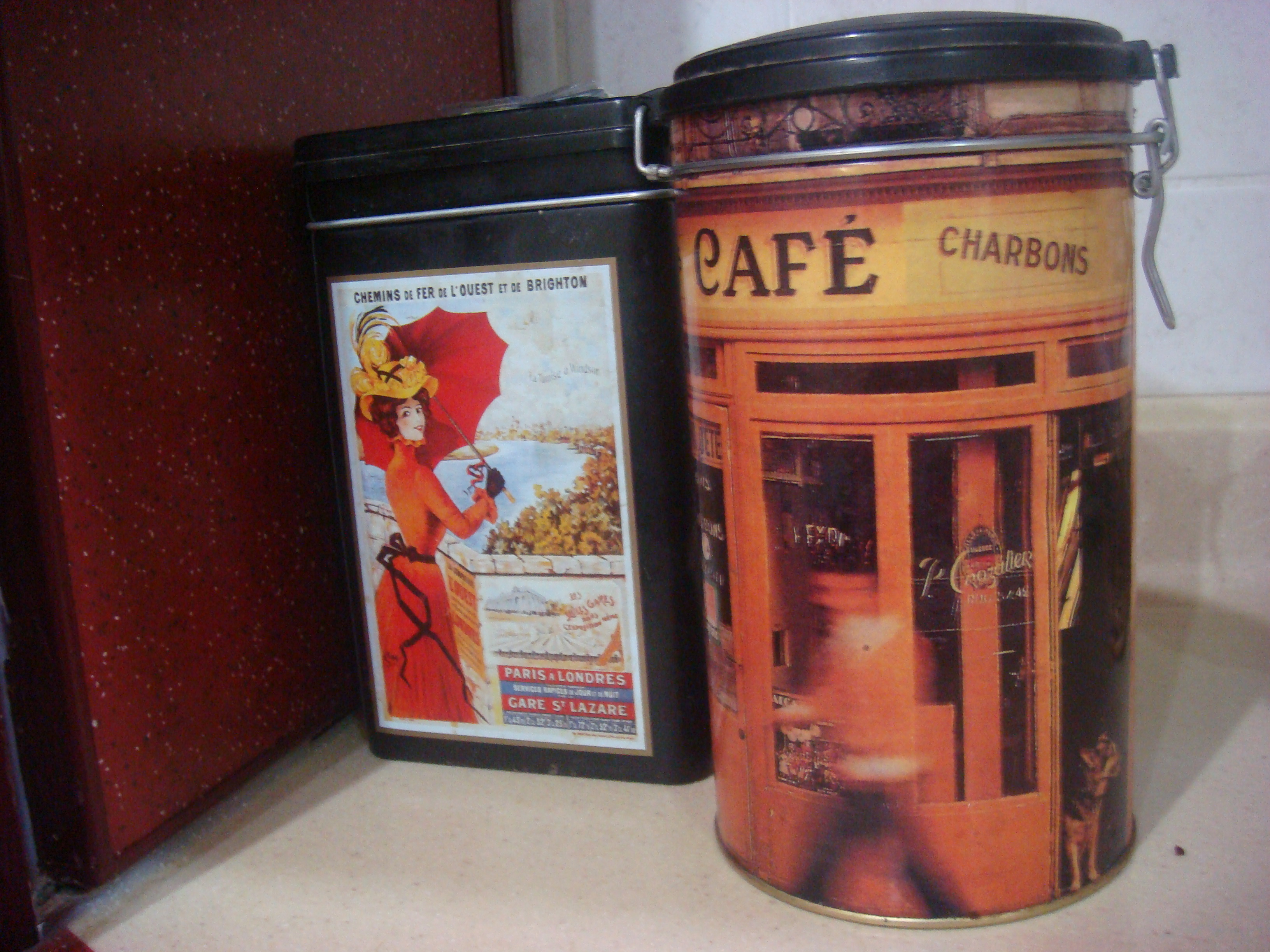 Cafe box